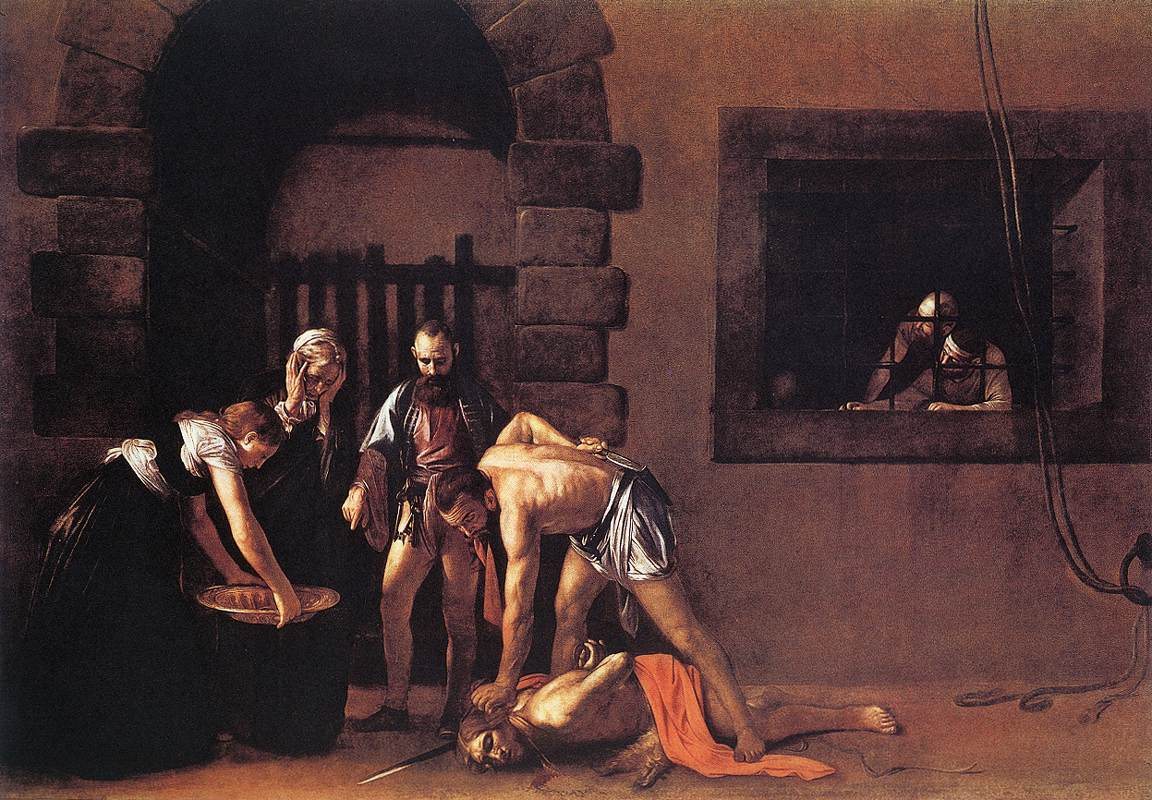 Caravaggio: Beheading of John the Baptist